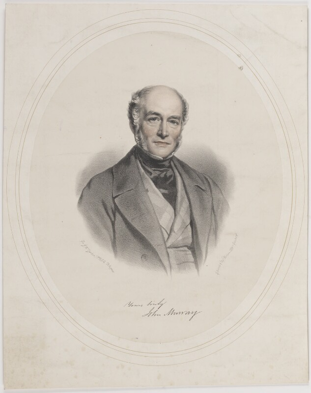 Lithograph portrait of John Murray, Lord Murray (1778–1859), Scottish judge.